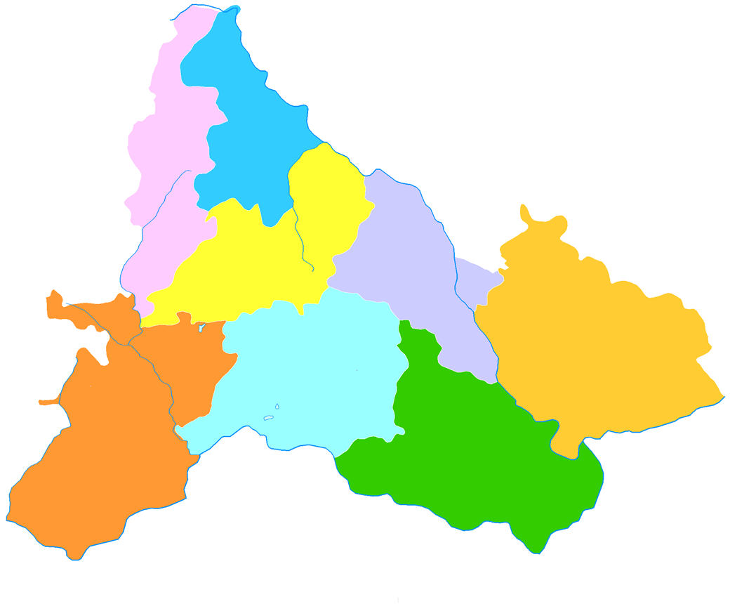 administrative division of Qianxinan Buyei and Miao Autonomous Prefecture, Guizhou, China